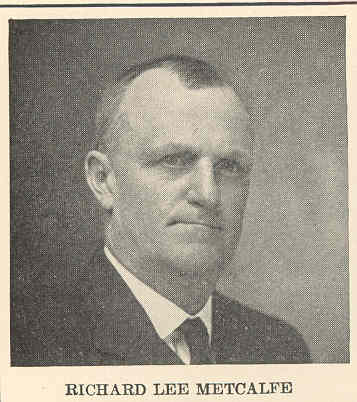 Richard Lee Metcalfe. Digital collection: Freshwater and Marine Image Bank Repository: Most materials are located in the University of Washington Libraries. Images were scanned by staff of the UW Fisheries-Oceanography Library. Copyright: Materials in the Freshwater and Marine Image Bank are in the public domain. No copyright permissions are needed. Acknowledgement of the Freshwater and Marine Image Bank as a source for borrowed images is requested.